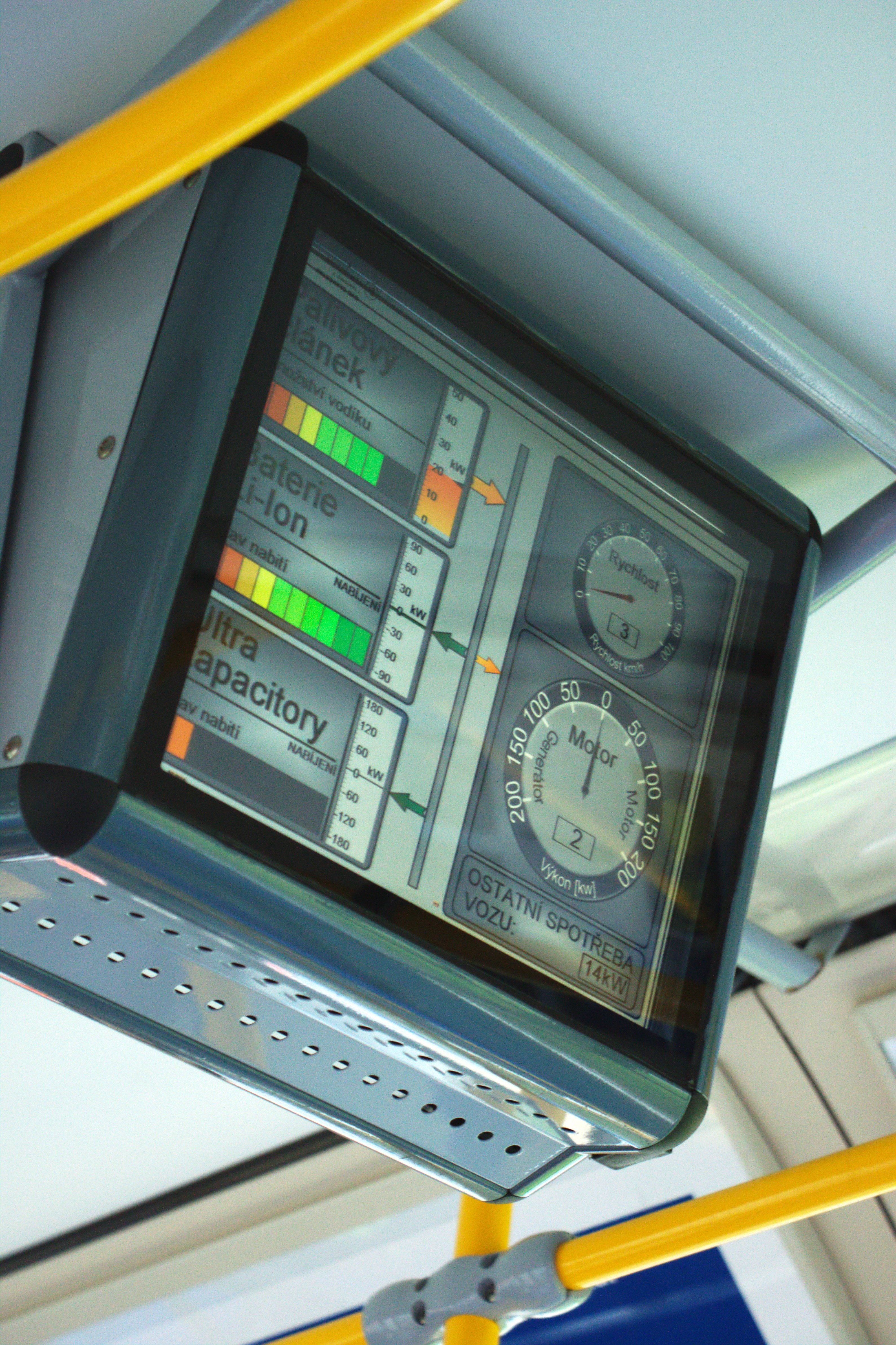 A display of usage of batteries and capacitators of the TriHyBus hydrogen-powered Irisbus Citelis bus at the Czech Bus 2011 fair in Prague-Holešovice